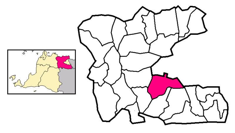 Location of Curug district, Tangerang county, Banten province, Java island, Indonesia